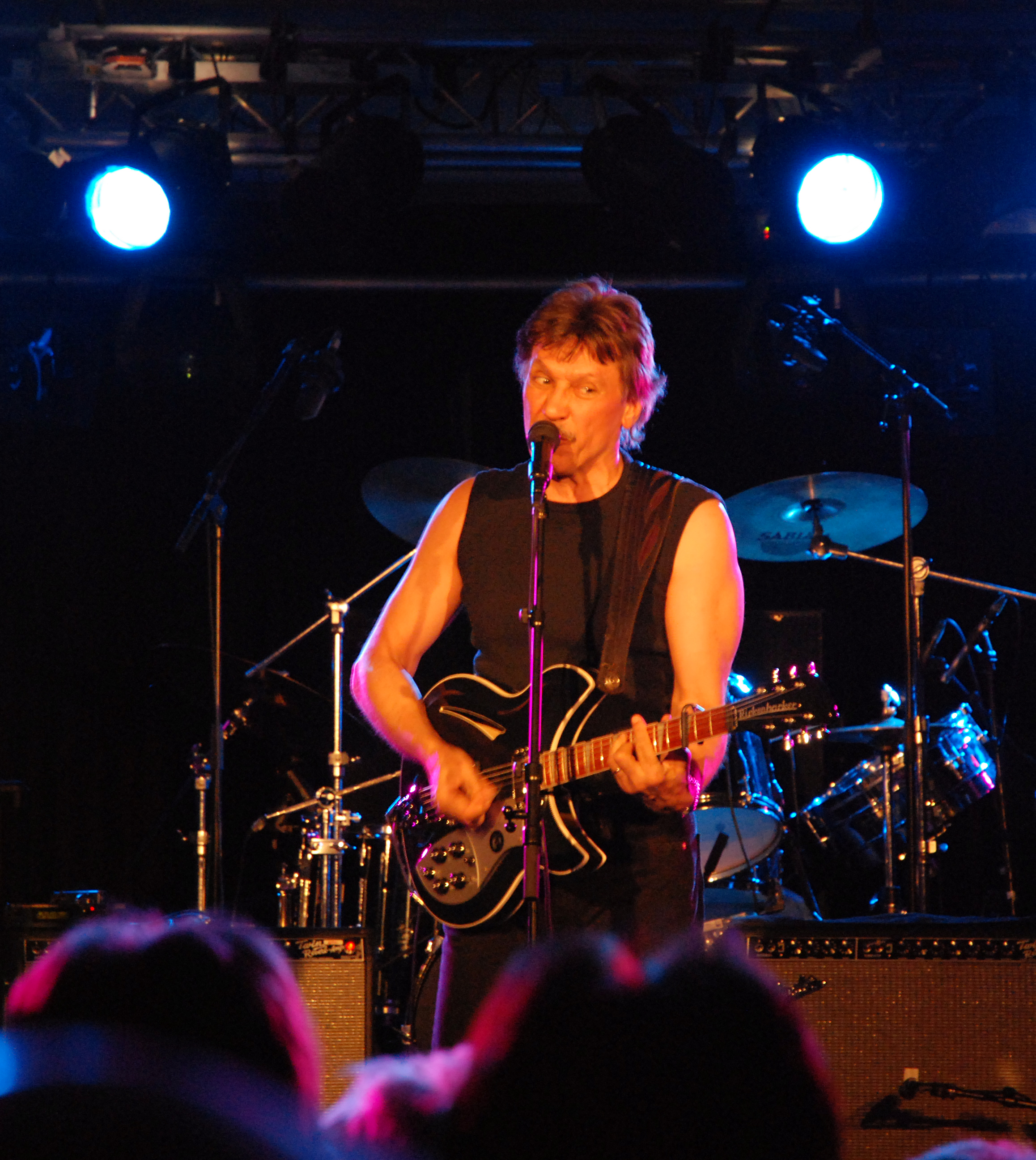 John Kay of Steppenwolf at Lillehammer Rock Weekend, in Lillehammer, Oppland, Norway.